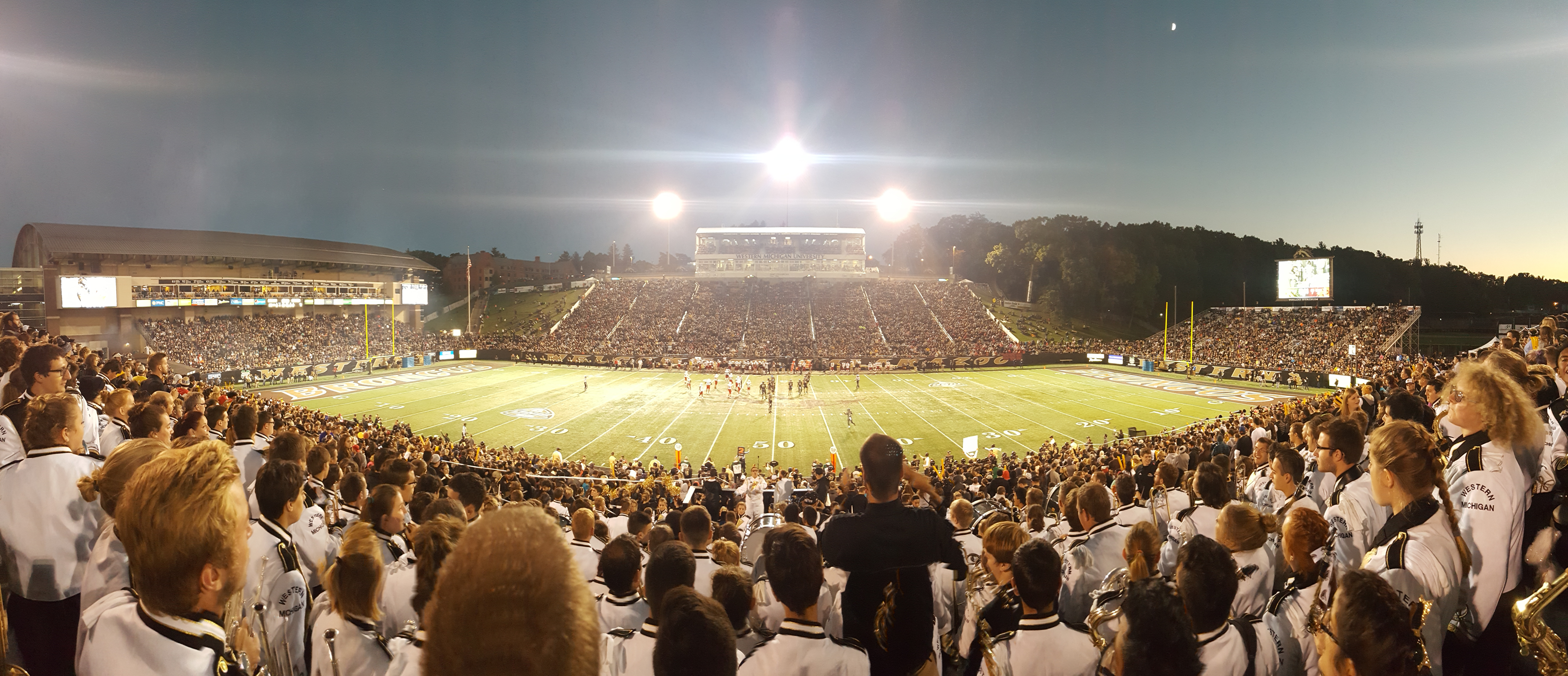 Panorama of Waldo Stadium on October 8, 2016. This photograph was taken on the top row of the student section. At this game, the Western Michigan University Broncos defeated the Northern Illinois University Huskies 45-30 on Homecoming.